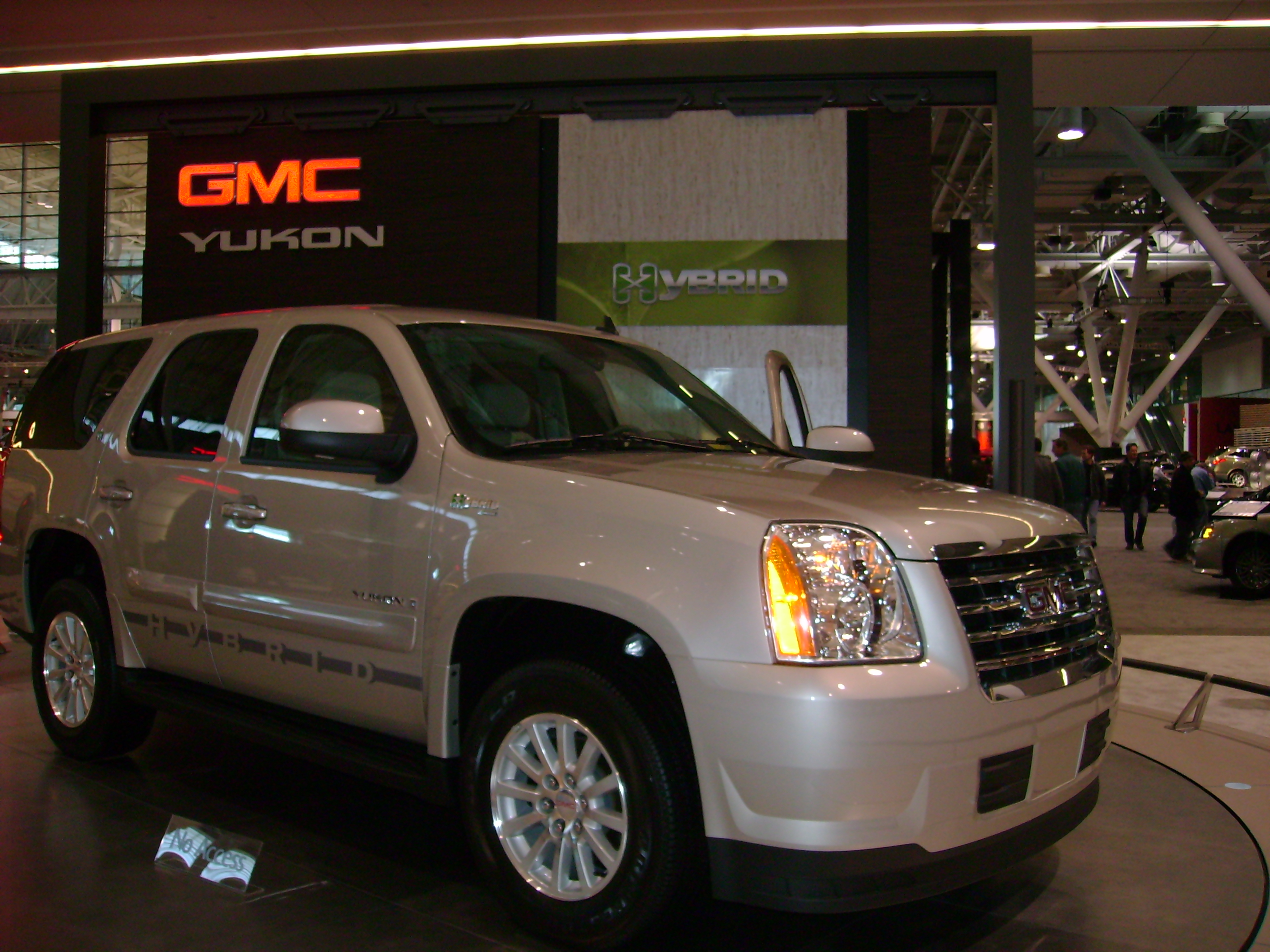 2008 GMC Yukon Hybrid photographed in USA.